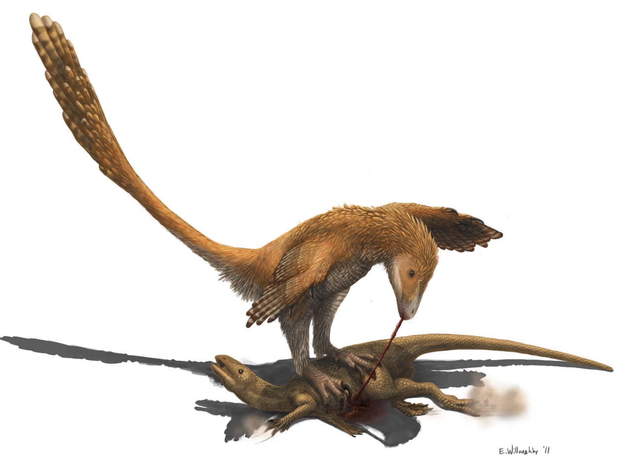 Reconstruction of Deinonychus antirrhopus engaging in the prey restraint model of predation suggested by Fowler et al in 2011. Prey here is Zephyrosaurus, a hypsilophodontid.